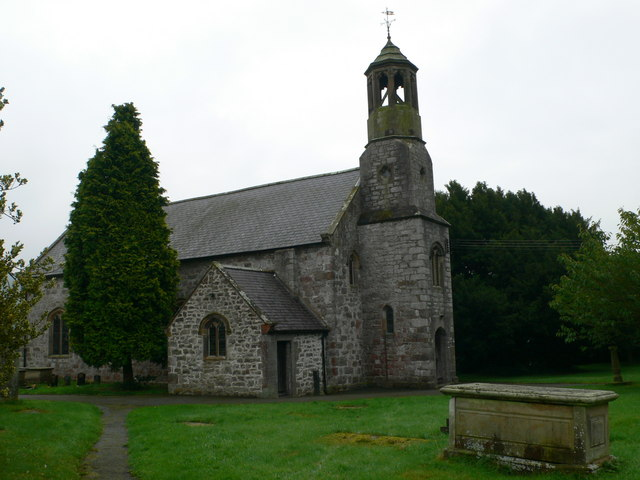 St Berres Church, Llanferres Set above the Ruthin to Mold road at Llanferres, this is probably a 17th Century church built on medieval foundations.